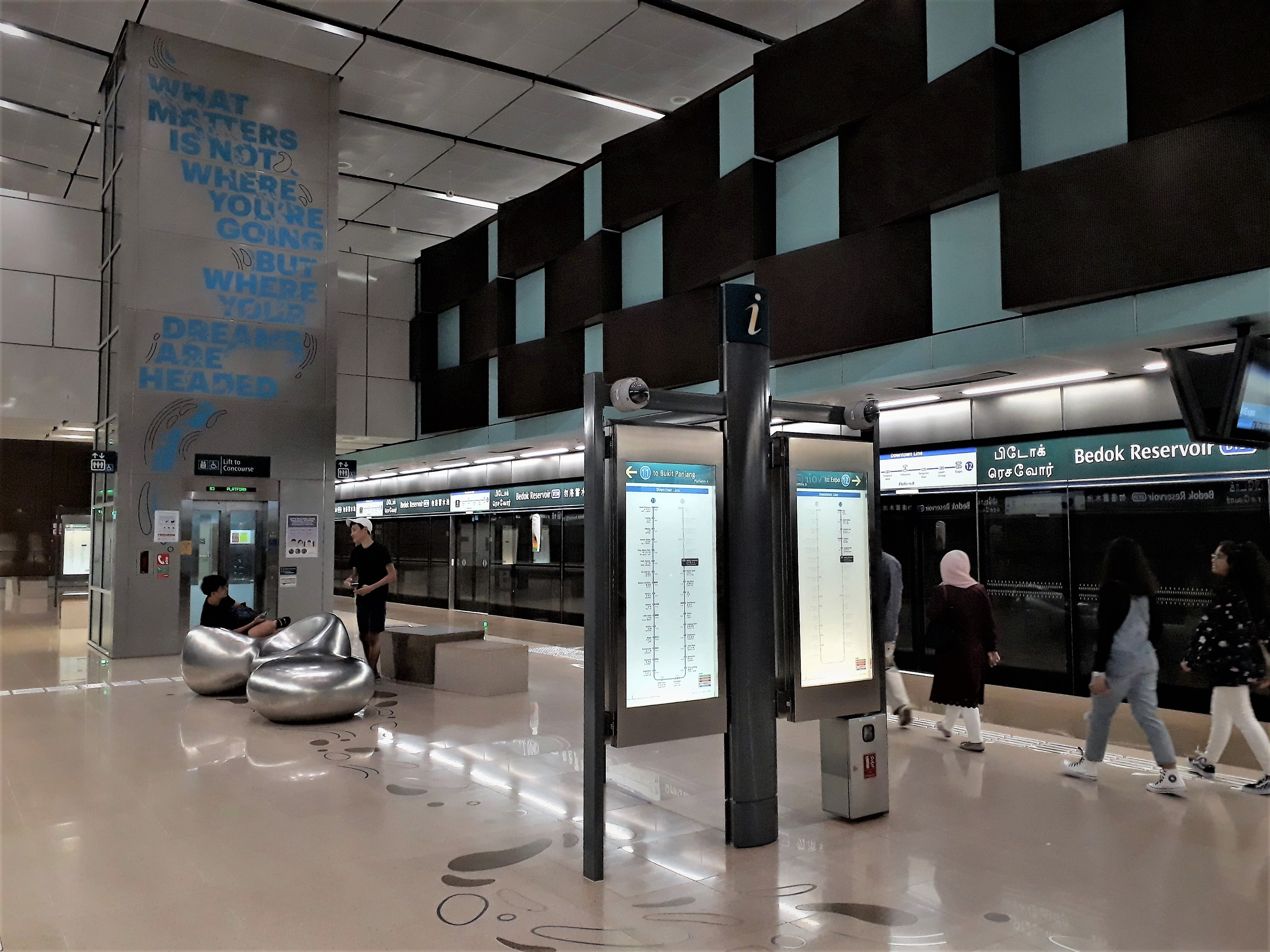 Platform of Bedok Reservoir MRT